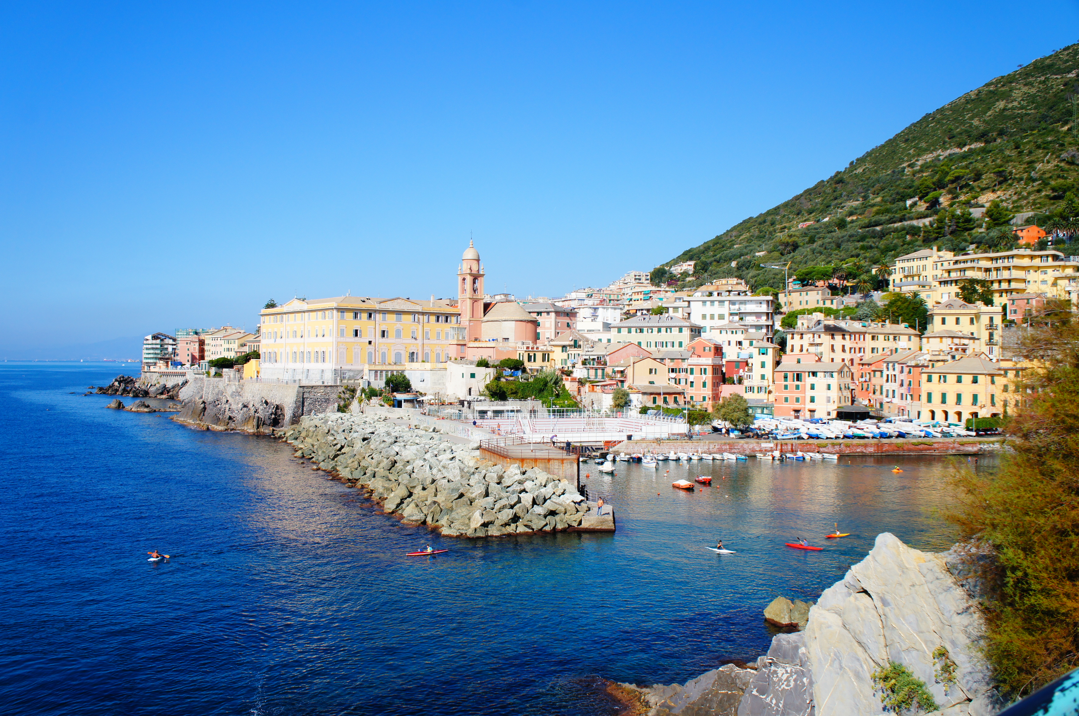 Nervi, Genoa